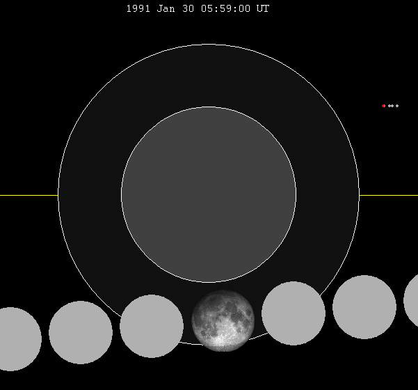 January 1991 lunar eclipse chart of moon's penumbral lunar eclipse path through the earth's shadow. thumb